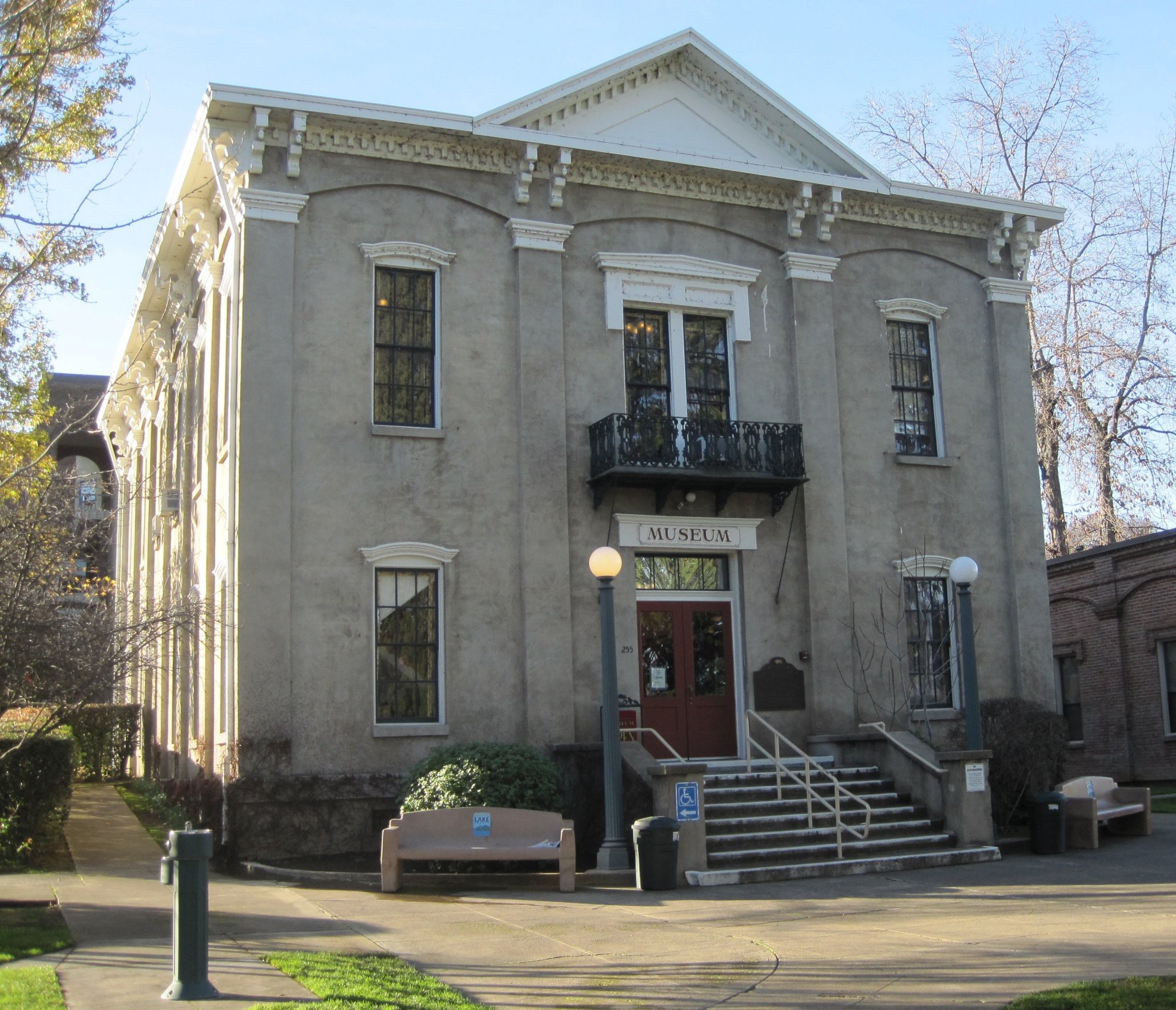 Lakeport Historic Courthouse Museum, Lakeport, Lake County, California